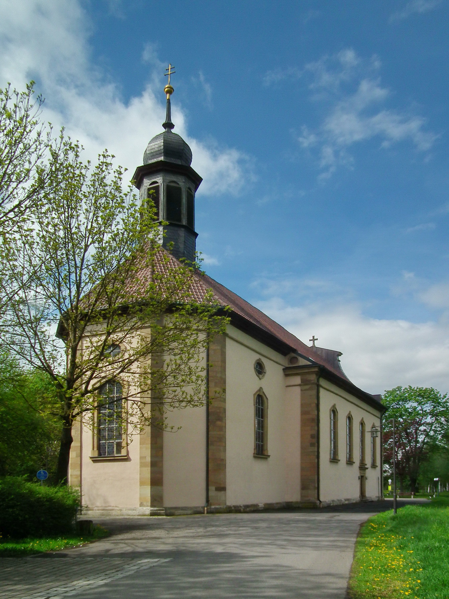 Pilgrimage church of Mariä Geburt Native nameWallfahrtskirche Mariä GeburtLocationIpthausen, Bad Königshofen im Grabfeld, Lower Franconia, GermanyCoordinates50° 18′ 02.46″ N, 10° 28′ 54.57″ E